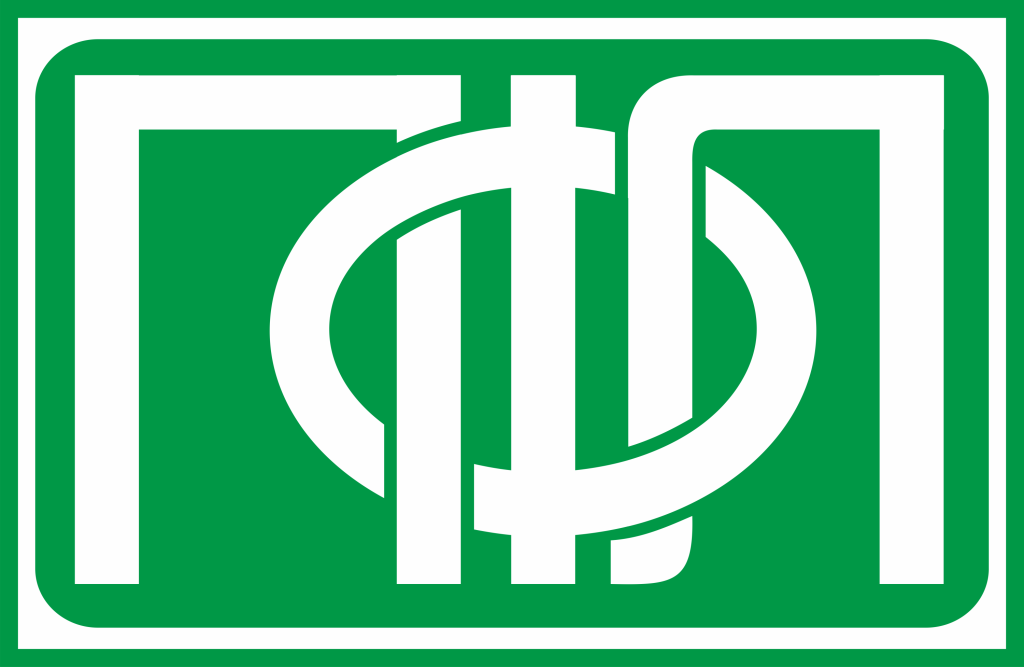 Professional Football League (Russia) logo